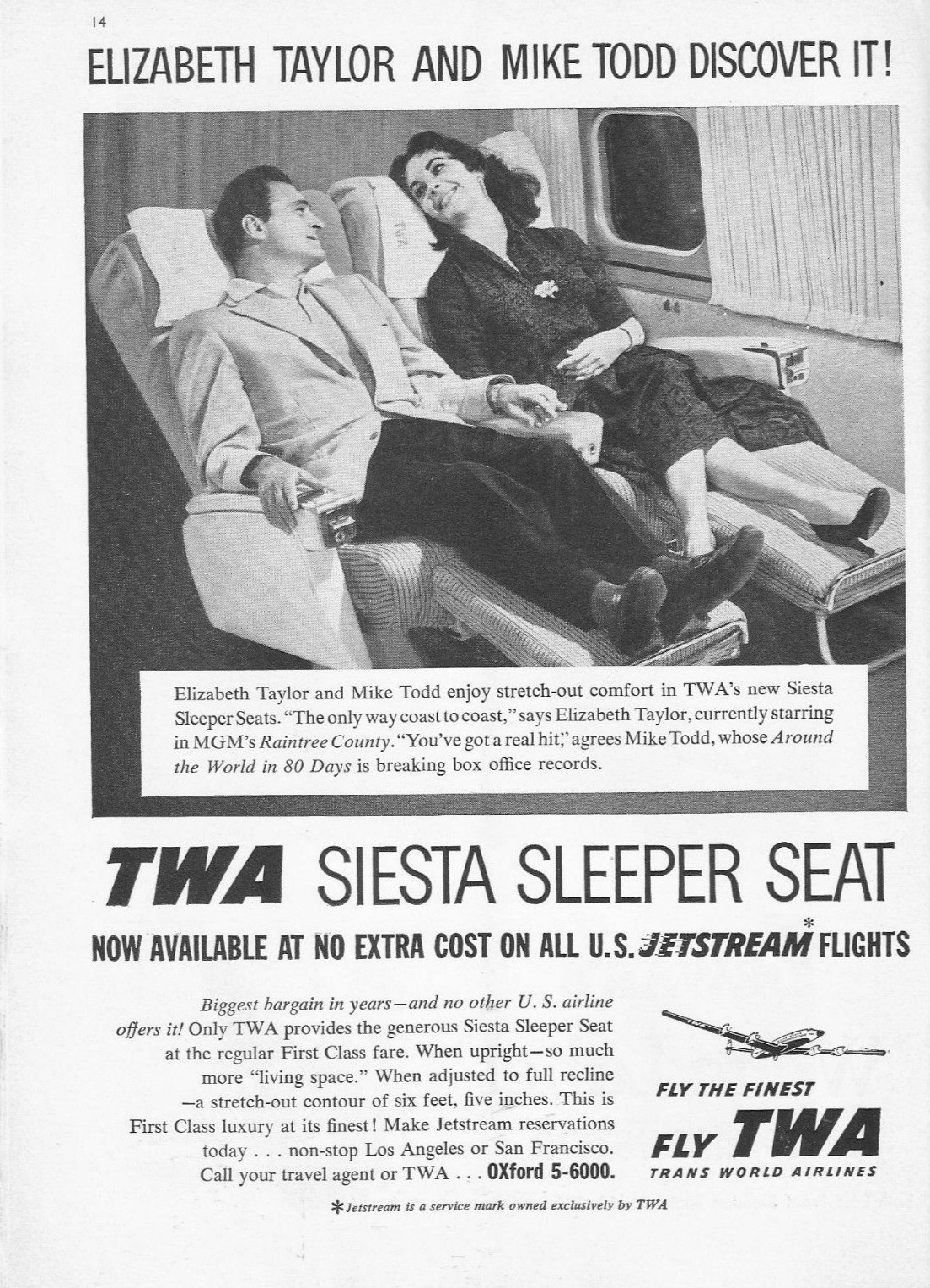 Trans World Airlines (TWA) ad in Playbill issue of February 10, 1958, featuring Mike Todd and Elizabeth Taylor touting the comfort of the airline's new seats.